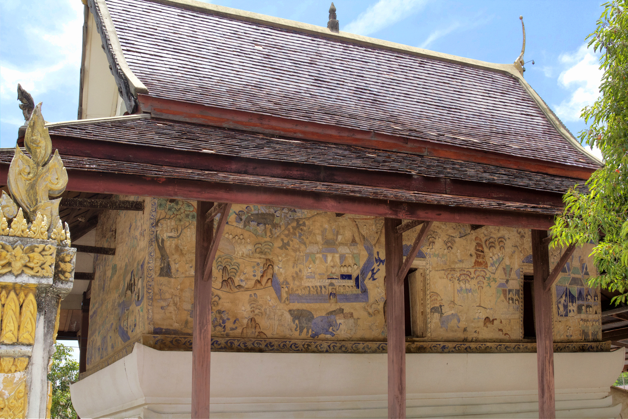 This wat has one wall that is entirely covered with murals from Sinxay. This is the wall seen in the photo